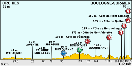 Profil of the 3rd stage of the Tour de France 2012